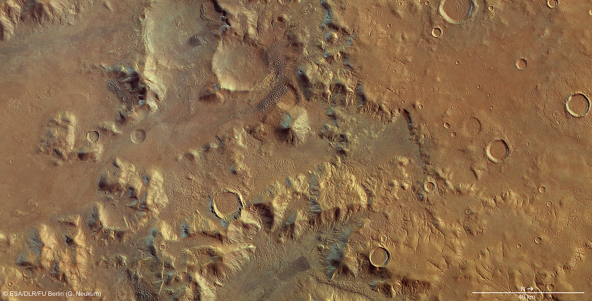 High-Resolution Stereo Camera (HRSC) nadir and colour channel data taken during revolution 10736 on 6 June 2012 by ESA’s Mars Express have been combined to form a natural-colour view of Nereidum Montes. Centred at around 40°S and 310°E, the image has a ground resolution of about 23 m per pixel. It shows a portion of the extensive region, with concentric crater fill in many of the craters towards the east (lower part of the image). Undulations in crater floors are commonly seen in mid-latitude regions on Mars and are believed to be a result of glacial movement. Credit: ESA/DLR/FU Berlin (G. Neukum), CC BY-SA 3.0 IGO Copyright Notice: This work is licenced under the Creative Commons Attribution-ShareAlike 3.0 IGO (CC BY-SA 3.0 IGO) licence. The user is allowed to reproduce, distribute, adapt, translate and publicly perform this publication, without explicit permission, provided that the content is accompanied by an acknowledgement that the source is credited as 'ESA/DLR/FU Berlin’, a direct link to the licence text is provided and that it is clearly indicated if changes were made to the original content. Adaptation/translation/derivatives must be distributed under the same licence terms as this publication. To view a copy of this license, please visit